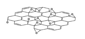 Hoffman structural model of the GO sheet